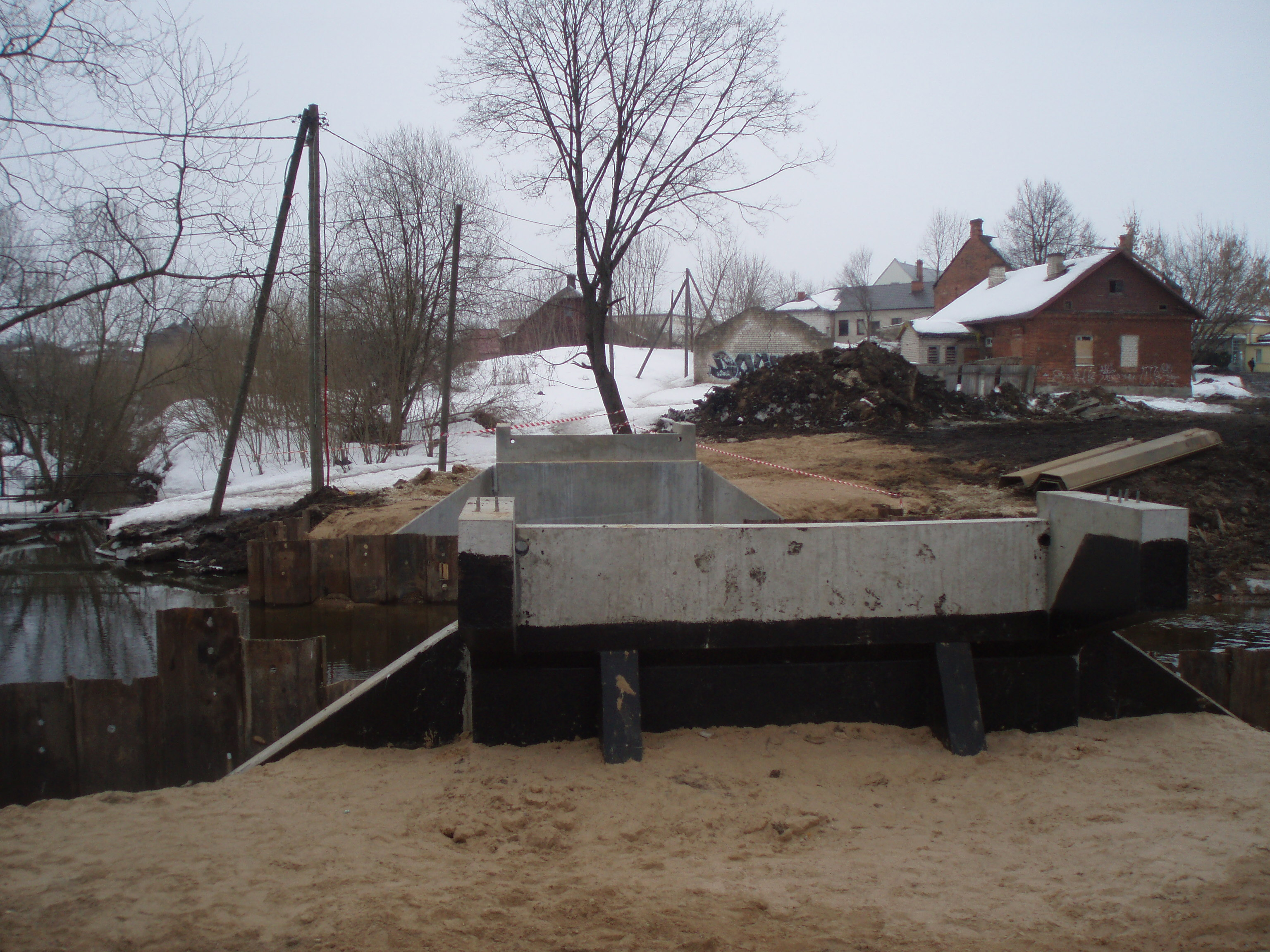 Future pedestrian bridge in Rēzekne.